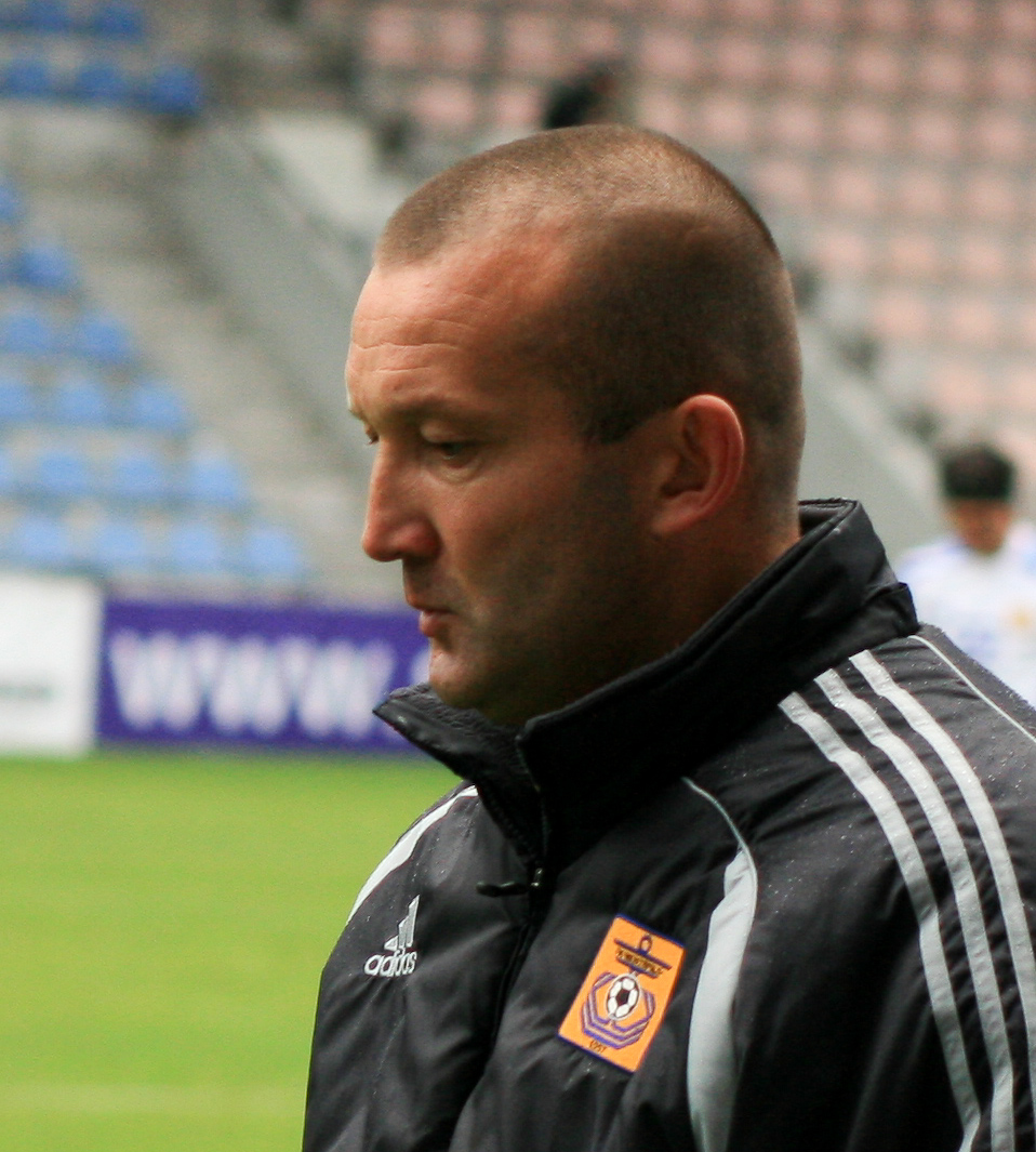 Roman Grigorchuk, Ukrainian footbal player and manager